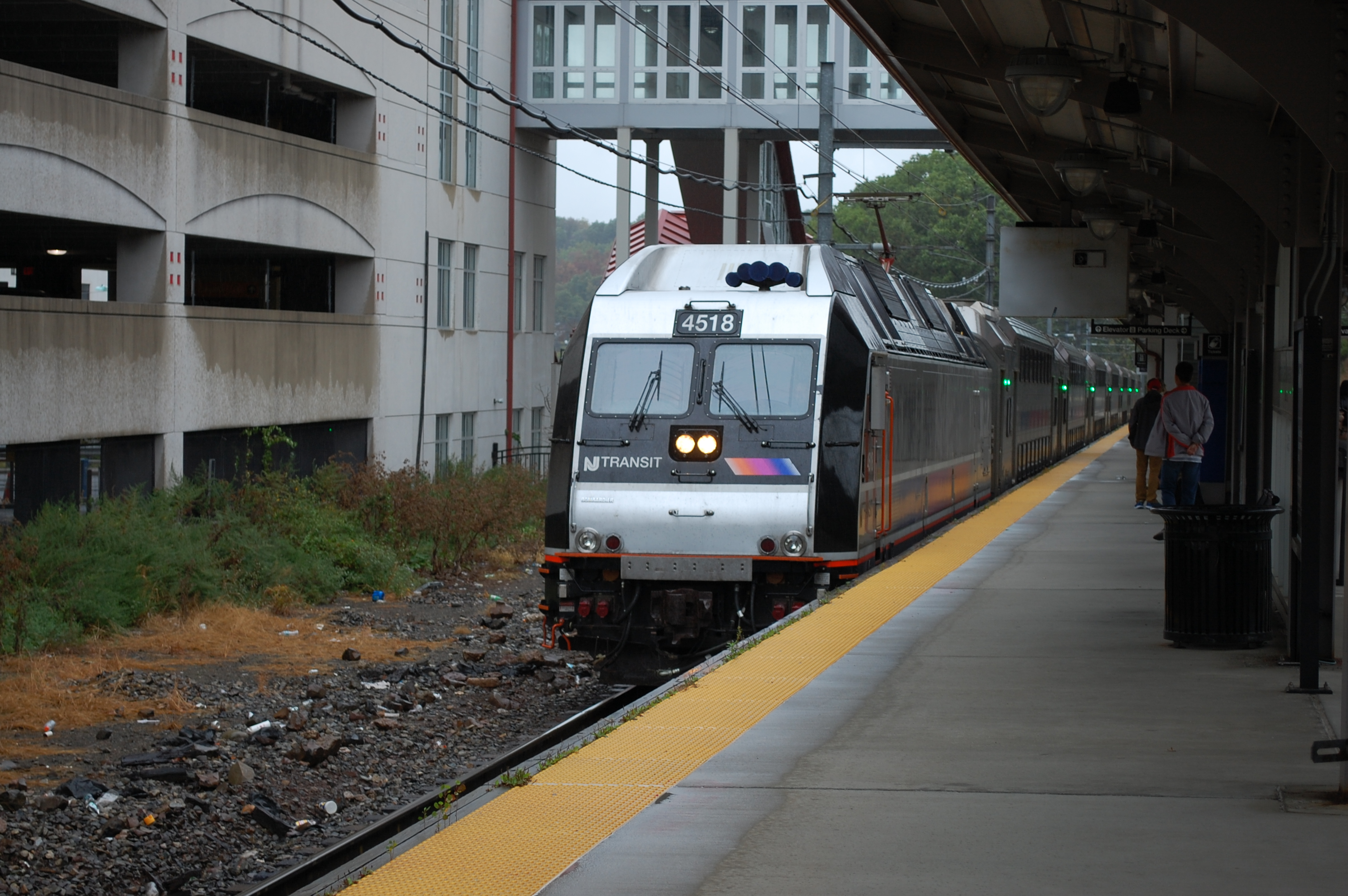 A shot taken by CaptainTransit on Columbus Day 2017, at Montclair State University Station.